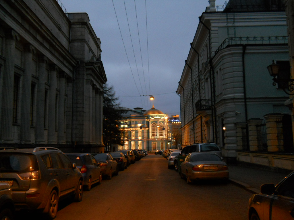 Moscow, Maly Znamensky Lane by night.